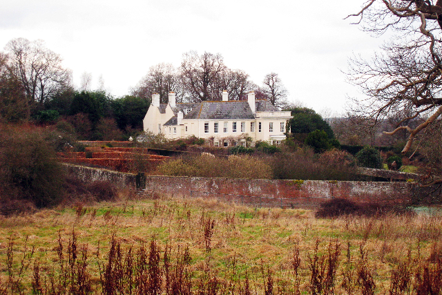 Iridge Place, London Road, Hurst Green, East Sussex Grade II* Listed